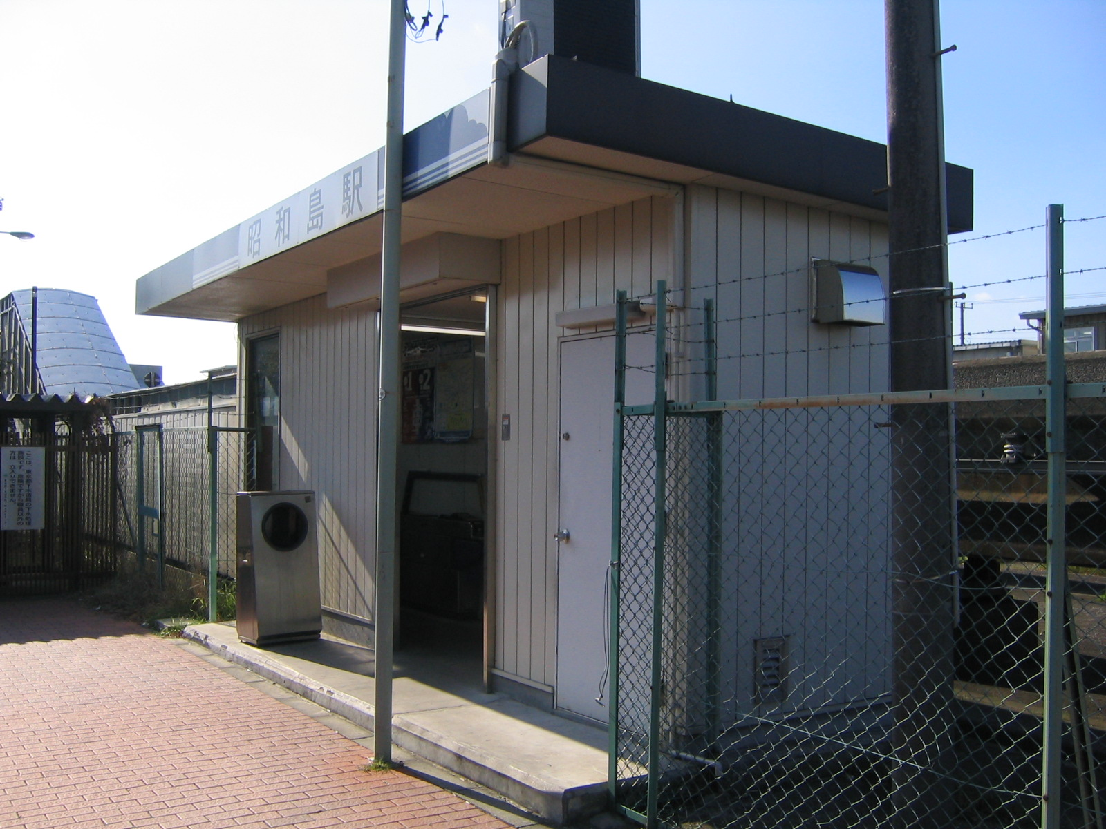 Showajima Station (East Entrance)